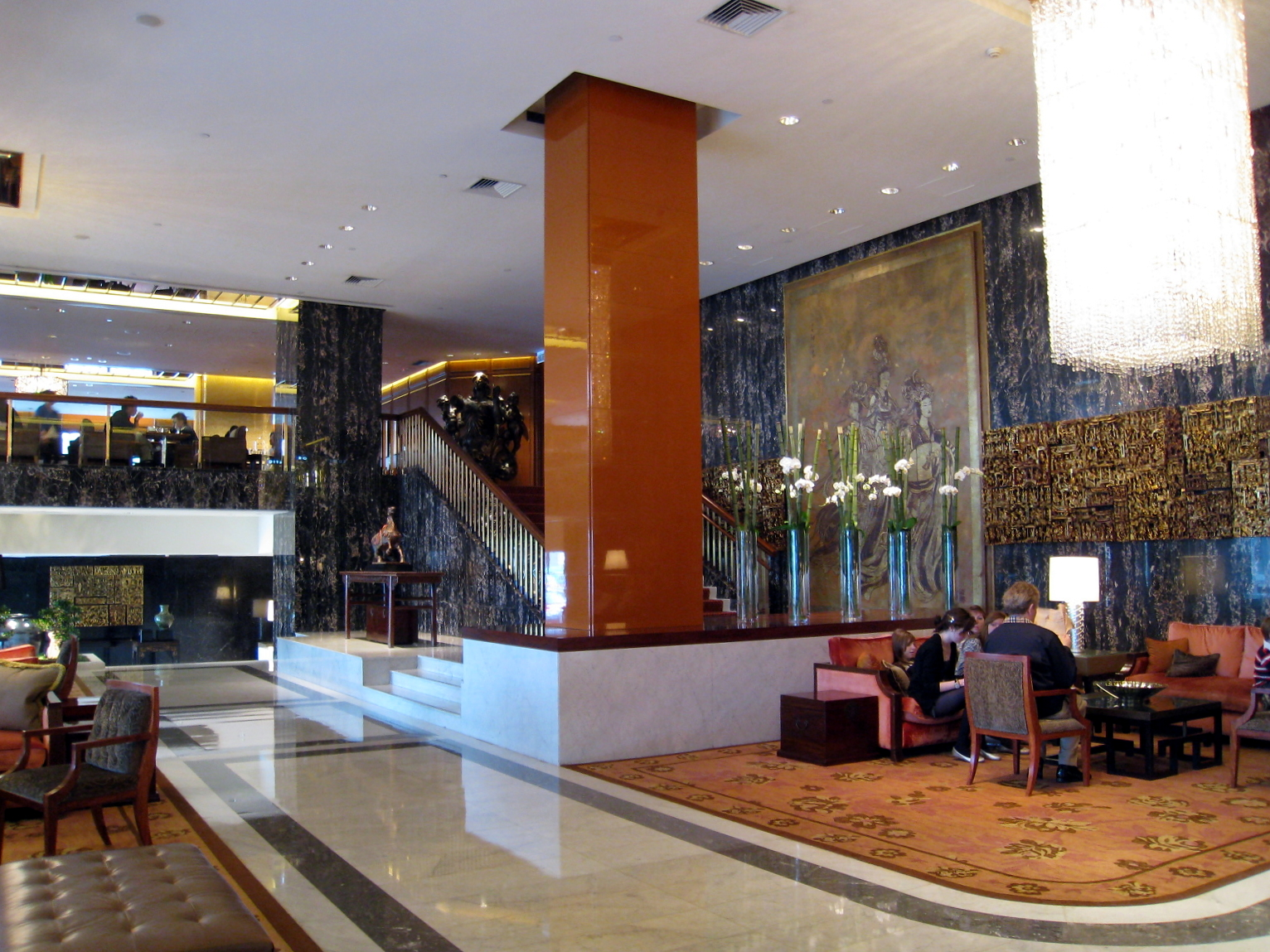 Mandarin Oriental Hong Kong Lobby Stairs